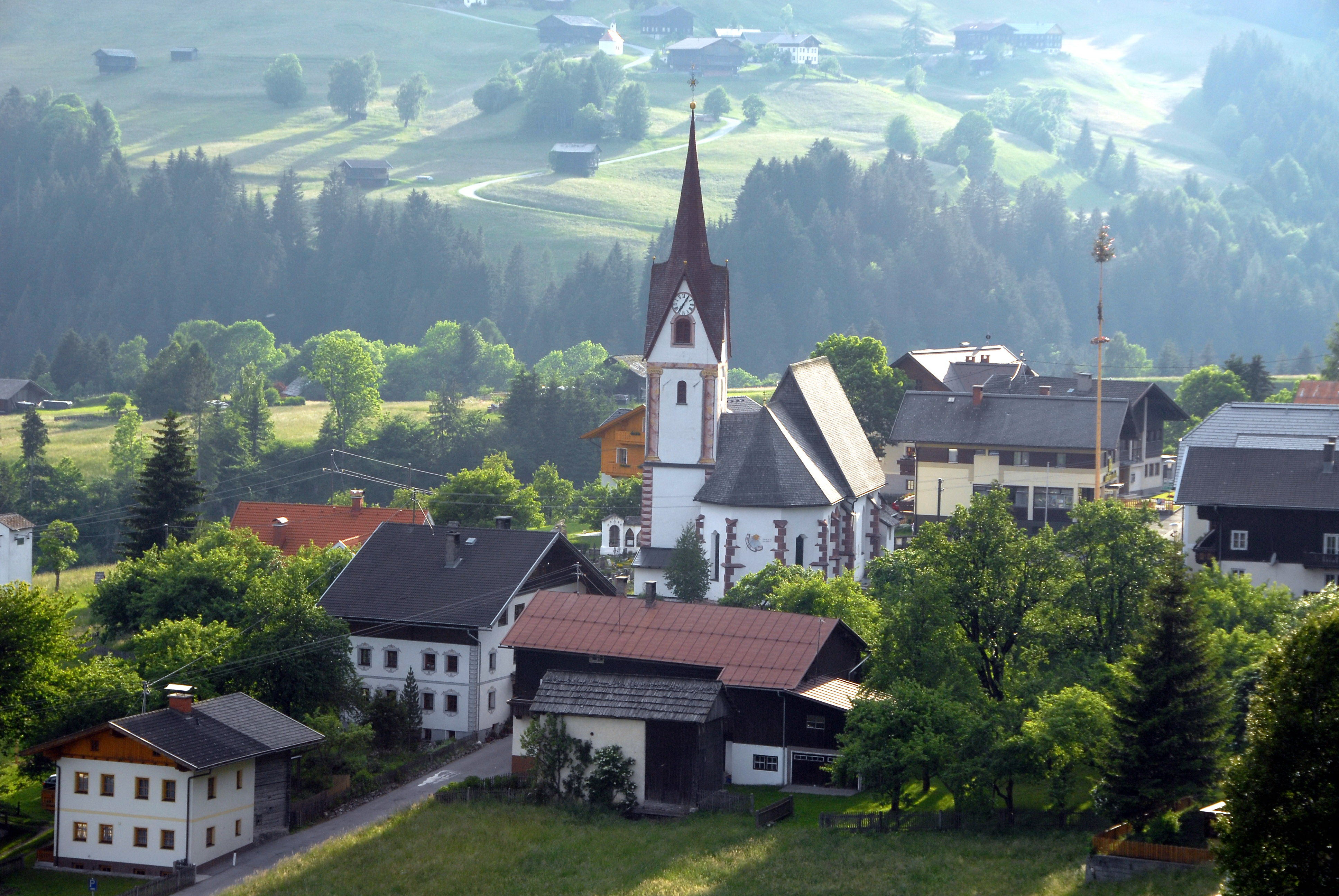 Village Liesing, municipality Lesachtal, district Hermagor, Carinthia, Austria, EU